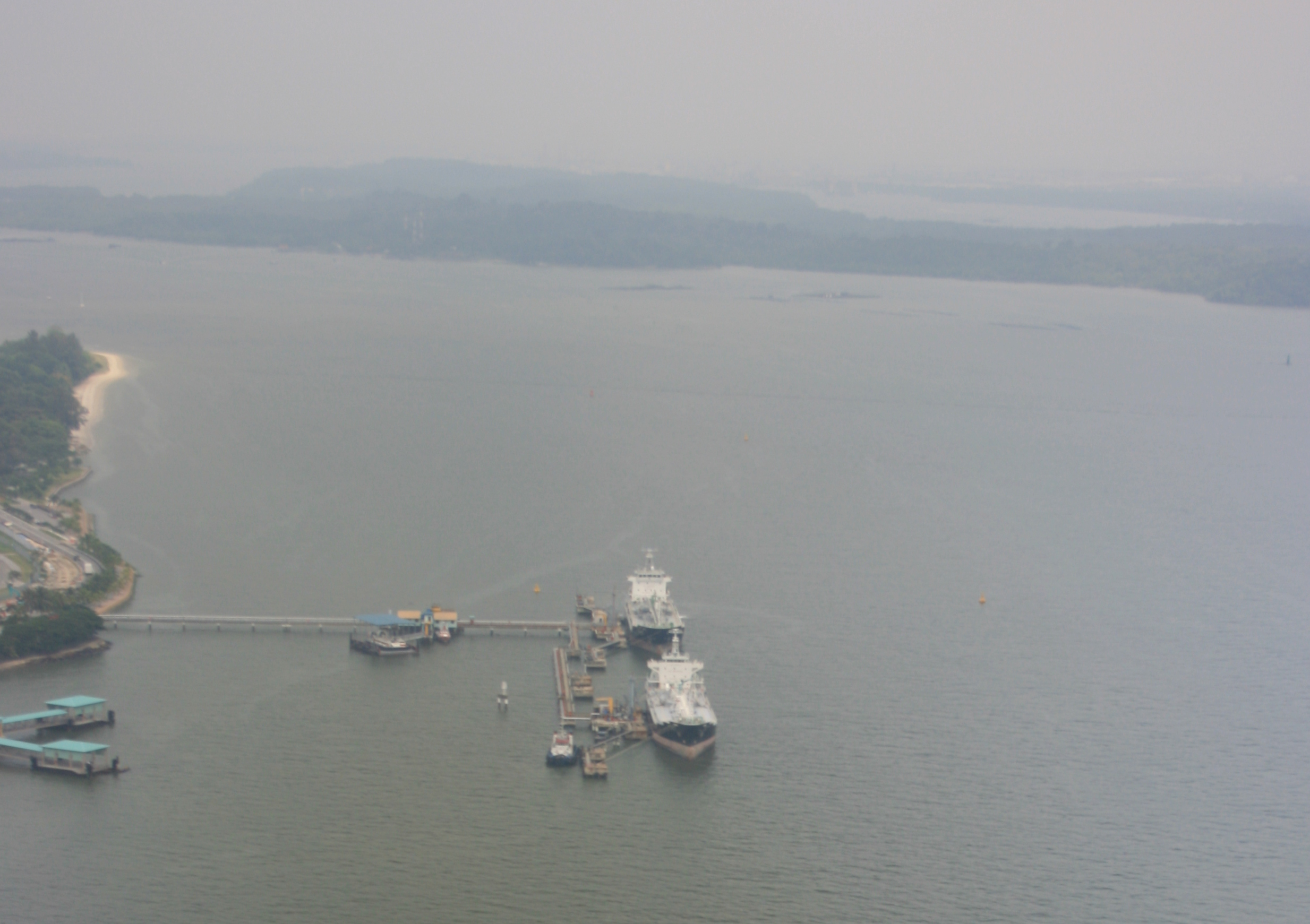 Shot them from the plane between HK and Singapore. CAFHI Jetty